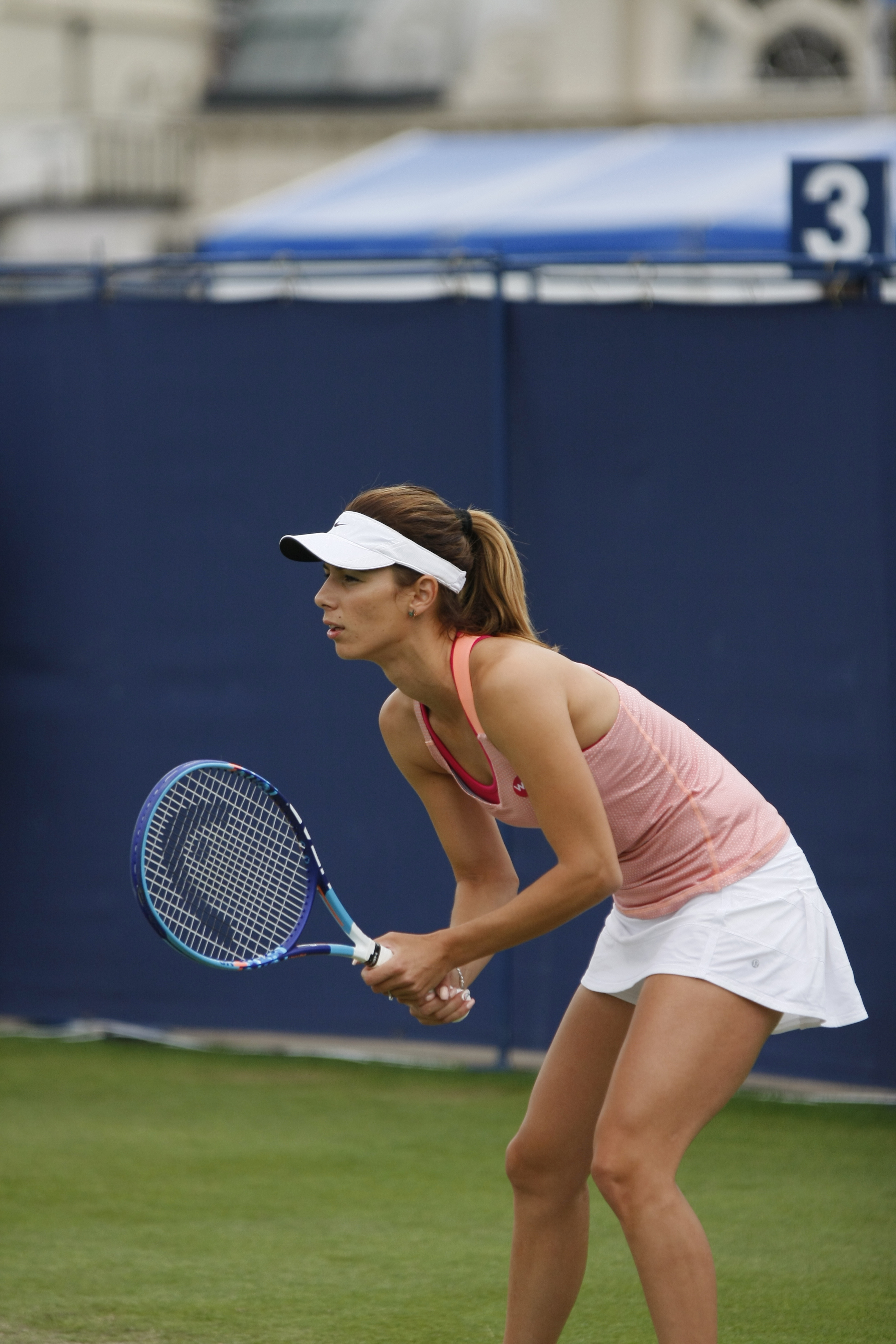 Aegon International Tennis, Devonshire Park, Eastbourne June 2015